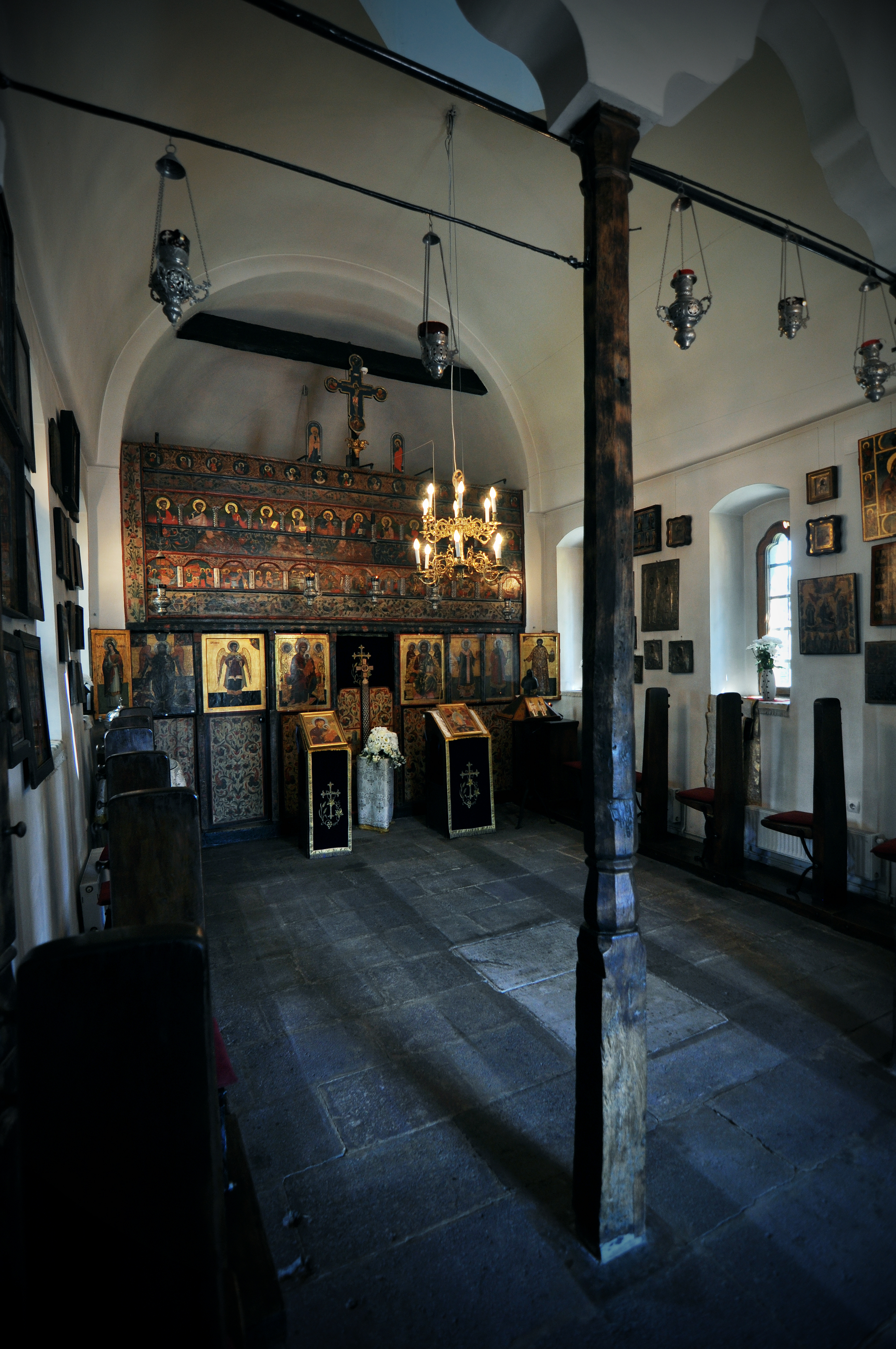 "Bucur the Shepherd" Church - "Saints Athanasos and Cyril", Bucharest, Romania built probably in the 18th century as a chapel of Radu Voda Monastery